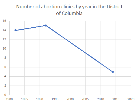 Uses data linked on . Number of abortion clinics in the District of Colombia by year.